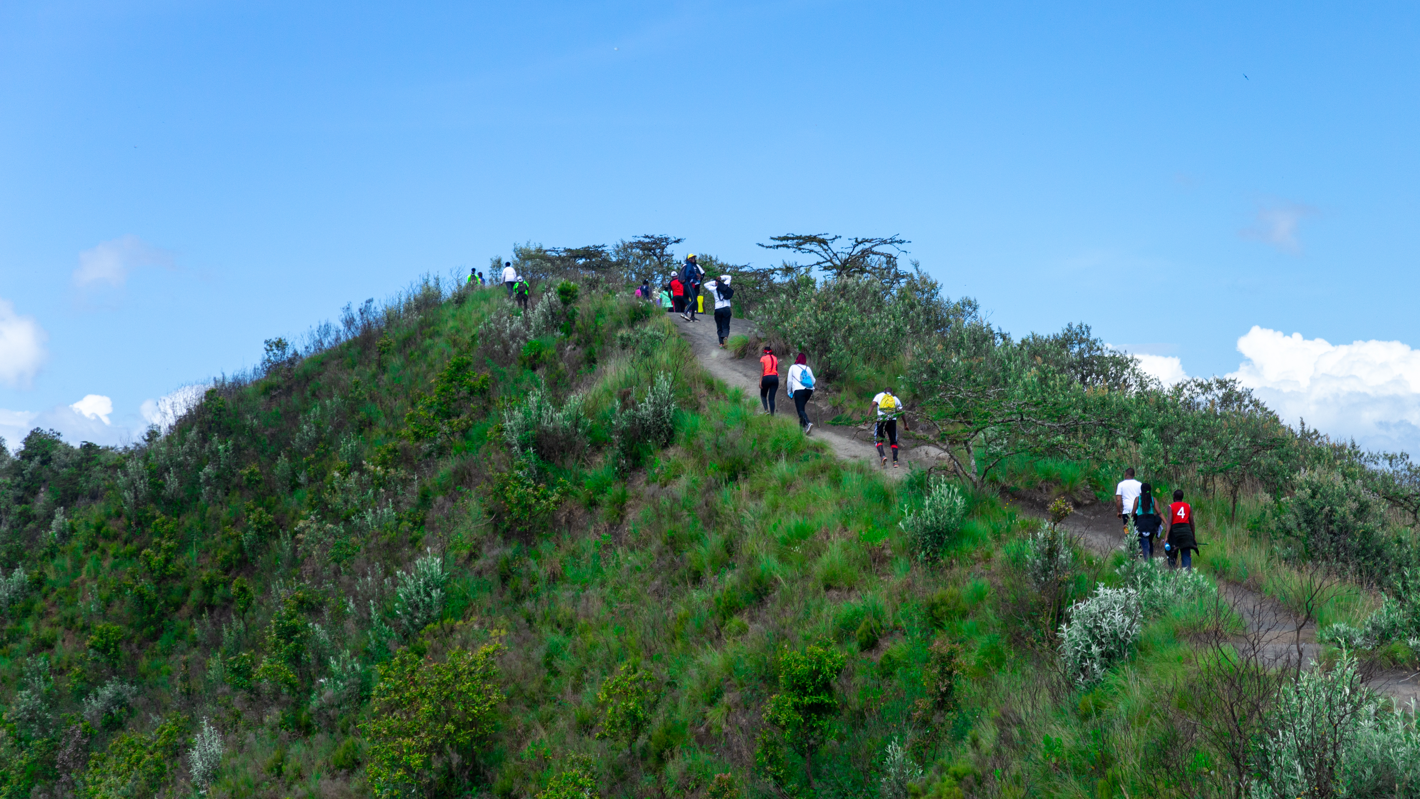 This is an image with the theme "Africa on the Move or Transport" from: Kenya